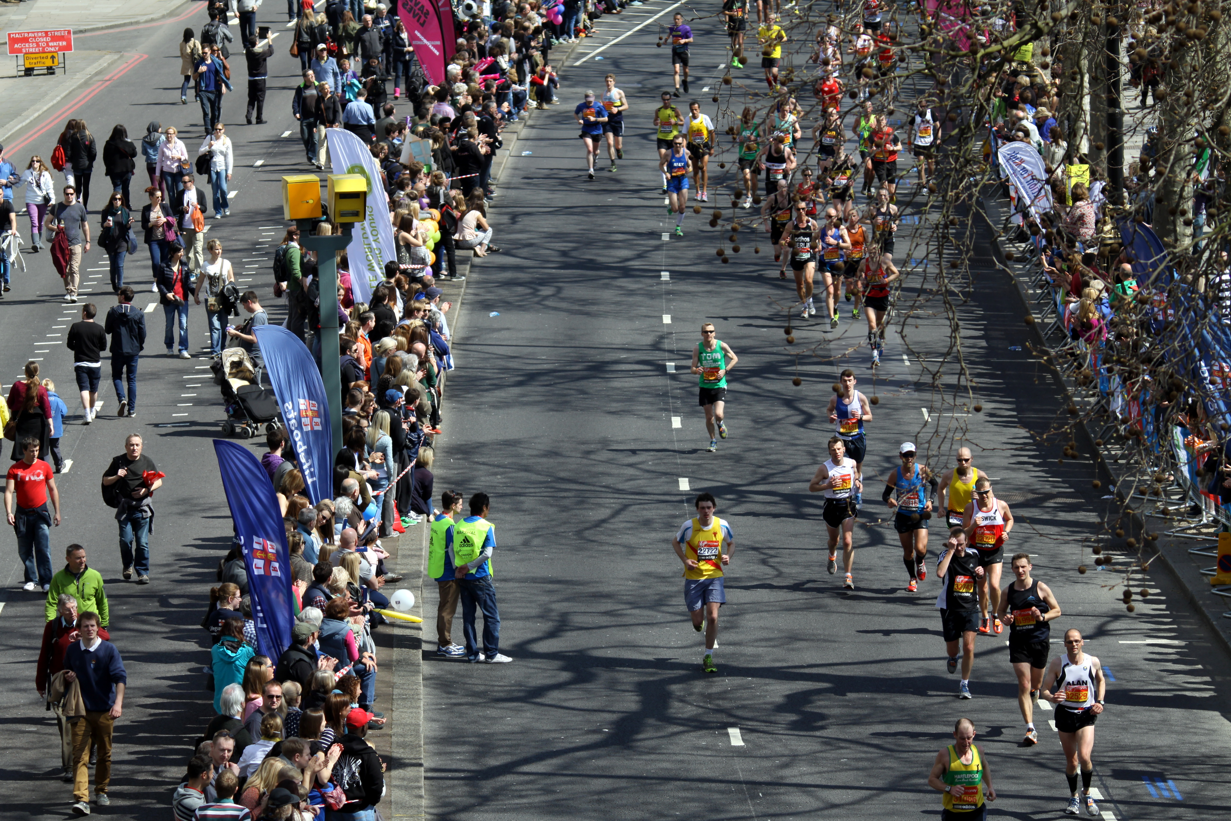 Runners during 2013 London Marathon, photographed at Victoria Embankment, London, Great Britain. The making of this file was supported by Wikimedia UK.